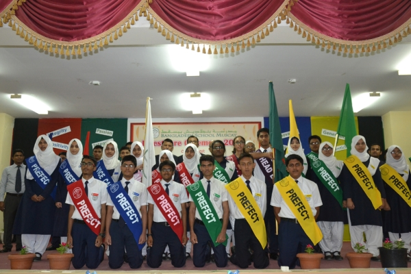 Students who have been selected as appointment holders given Sashe and Badges (2016)